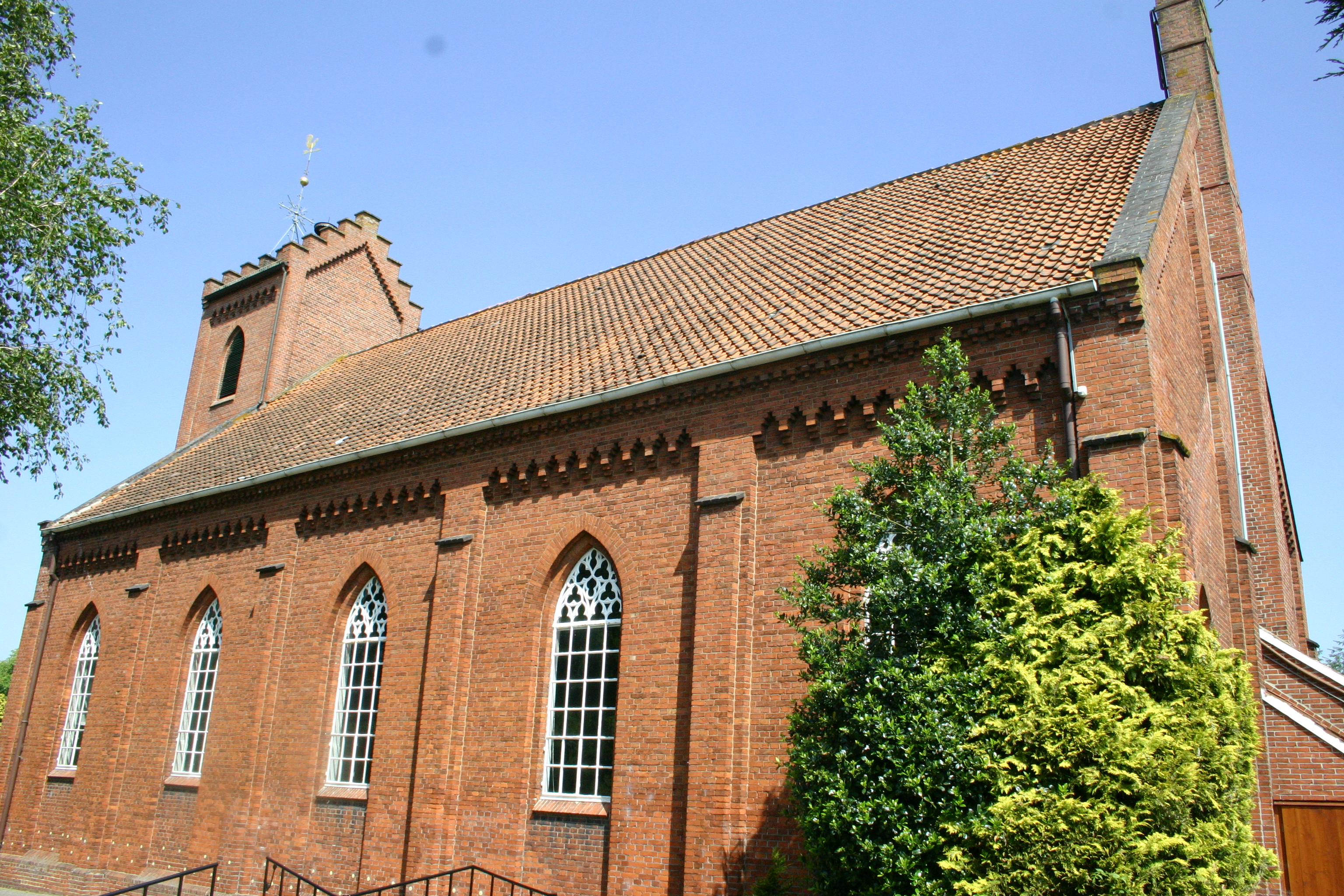 Historic church in Holthusen, district of Leer, East Frisia, Germany